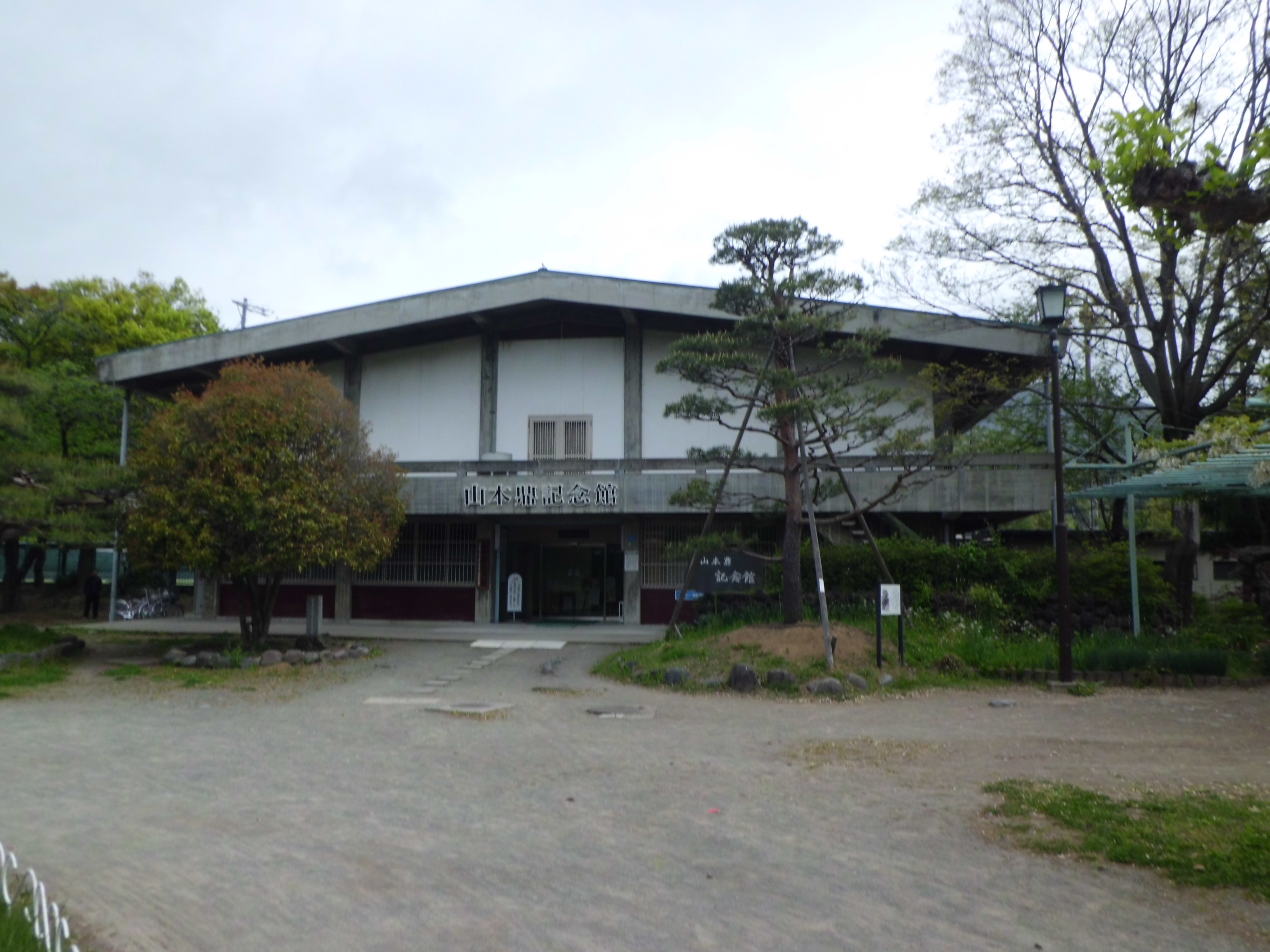 Museum Kanae Yamamoto in Nagano prefecture, Japan.